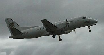 Saab 340 aircraft (SE-LES) from Teddy Air (in cooperation with Golden Air), taking of from Stord Airport